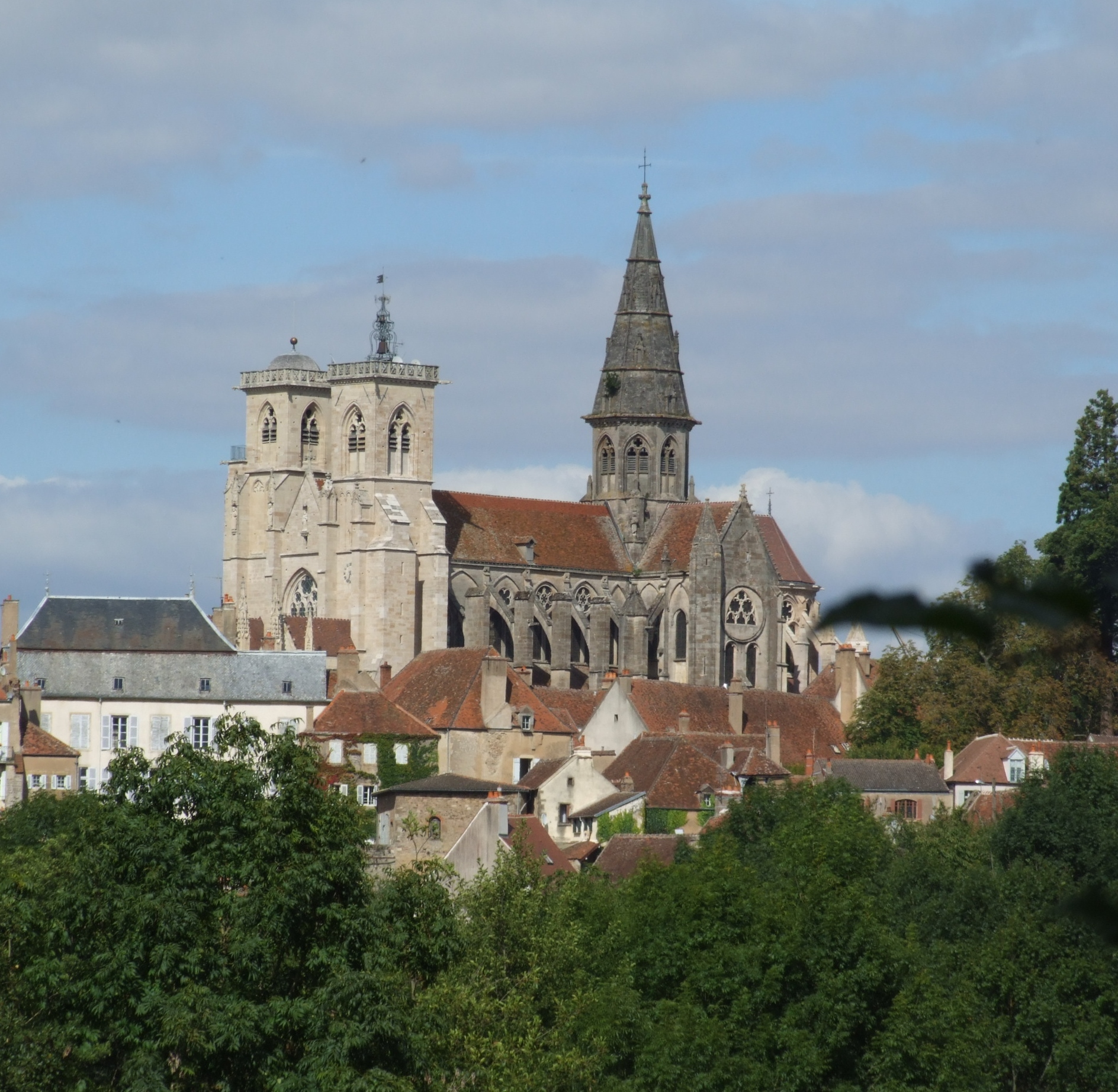 Notre-Dame Church, Semur-en-Auxois, Burgundy, FRANCE